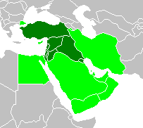 Modified version of .